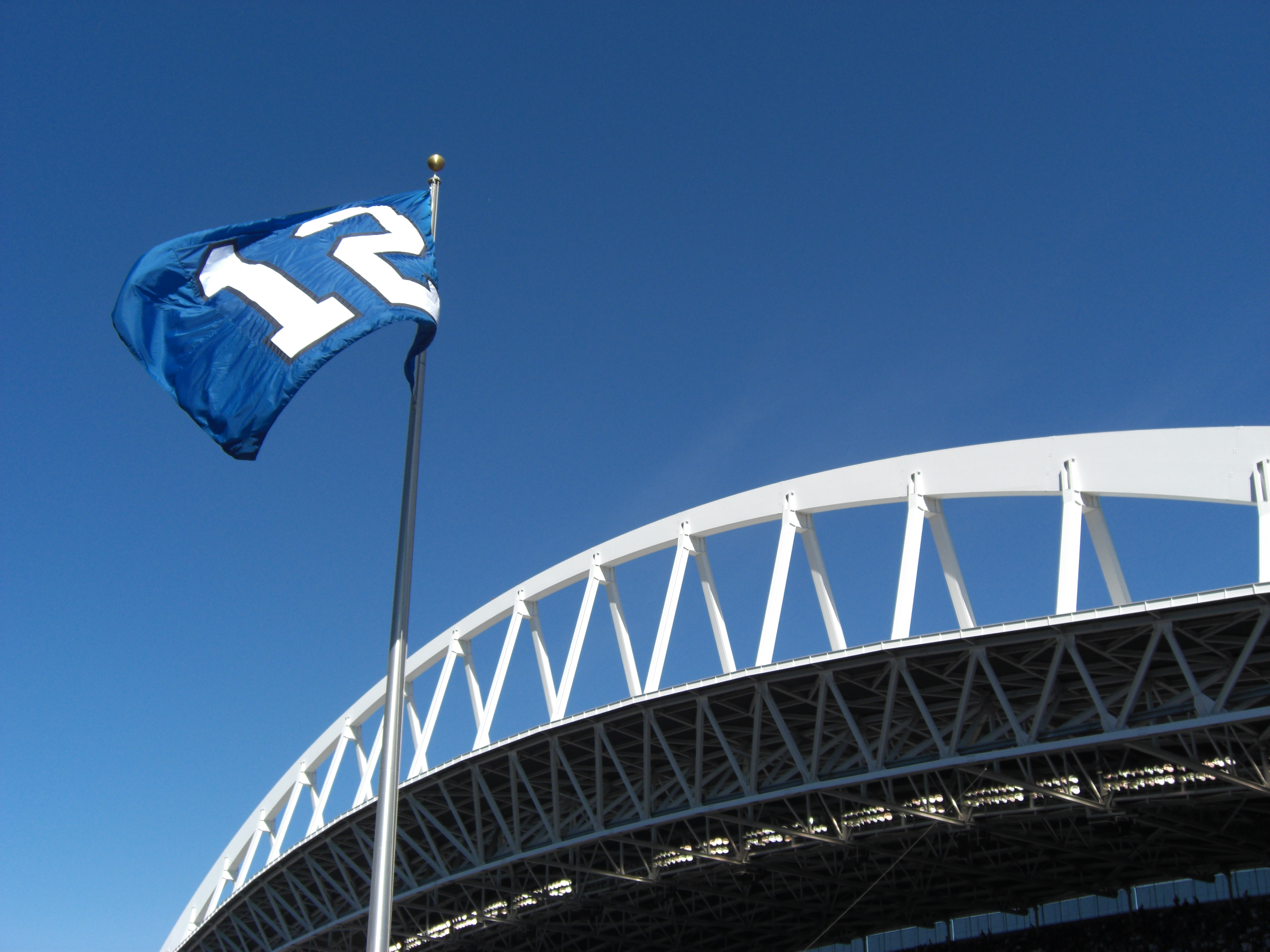 Picture of the 12th Man Flag at CenturyLink Field (formerly known as Qwest Field) in Seattle, WA during an NFL game of the Seattle Seahawks vs. Tampa Bay Buccaneers.